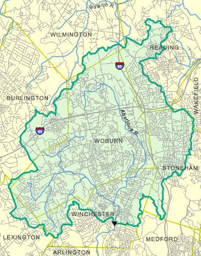 Watershed map of the Aberjona River of eastern Massachusetts.